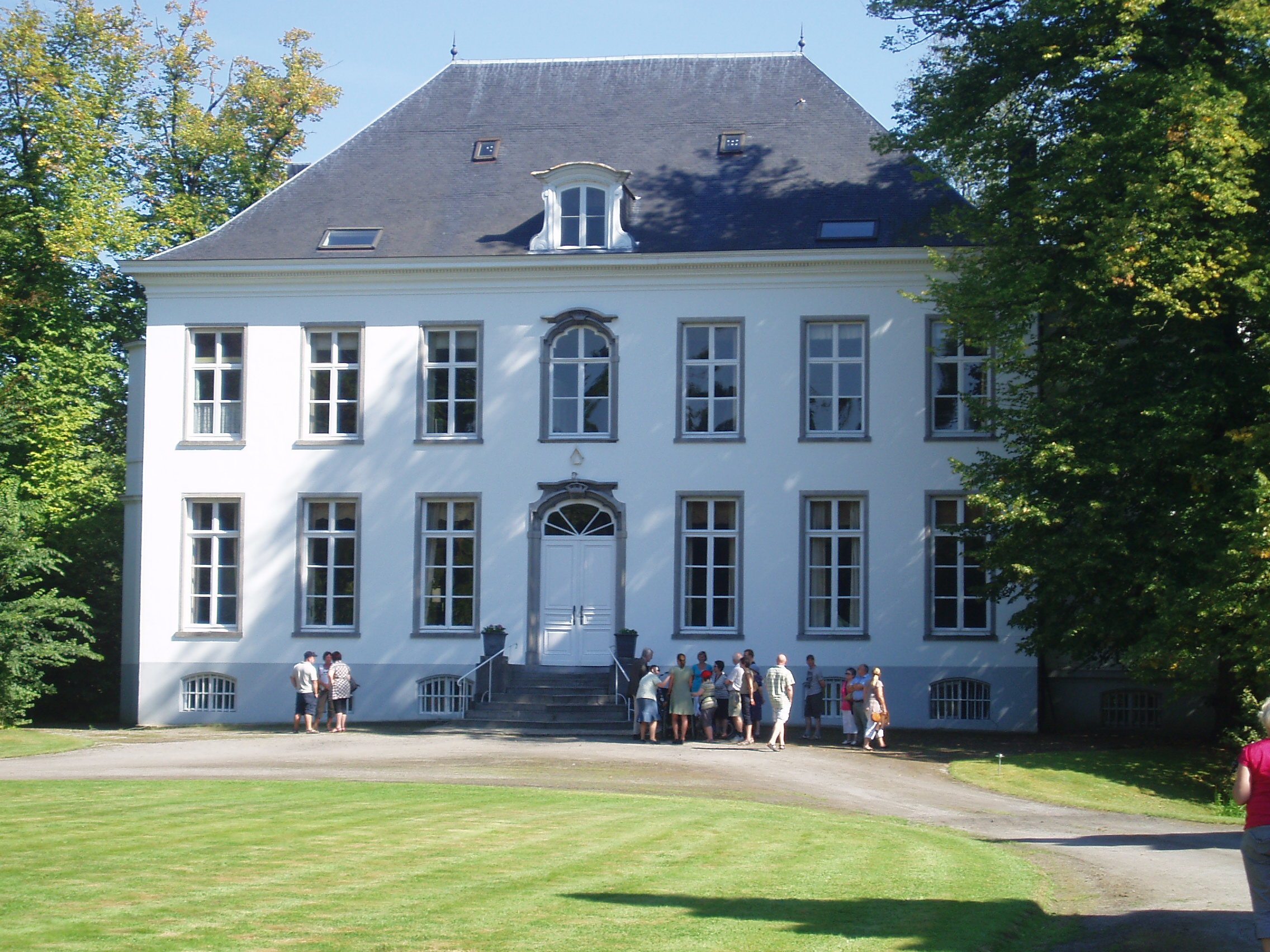 Hof van Massenhoven